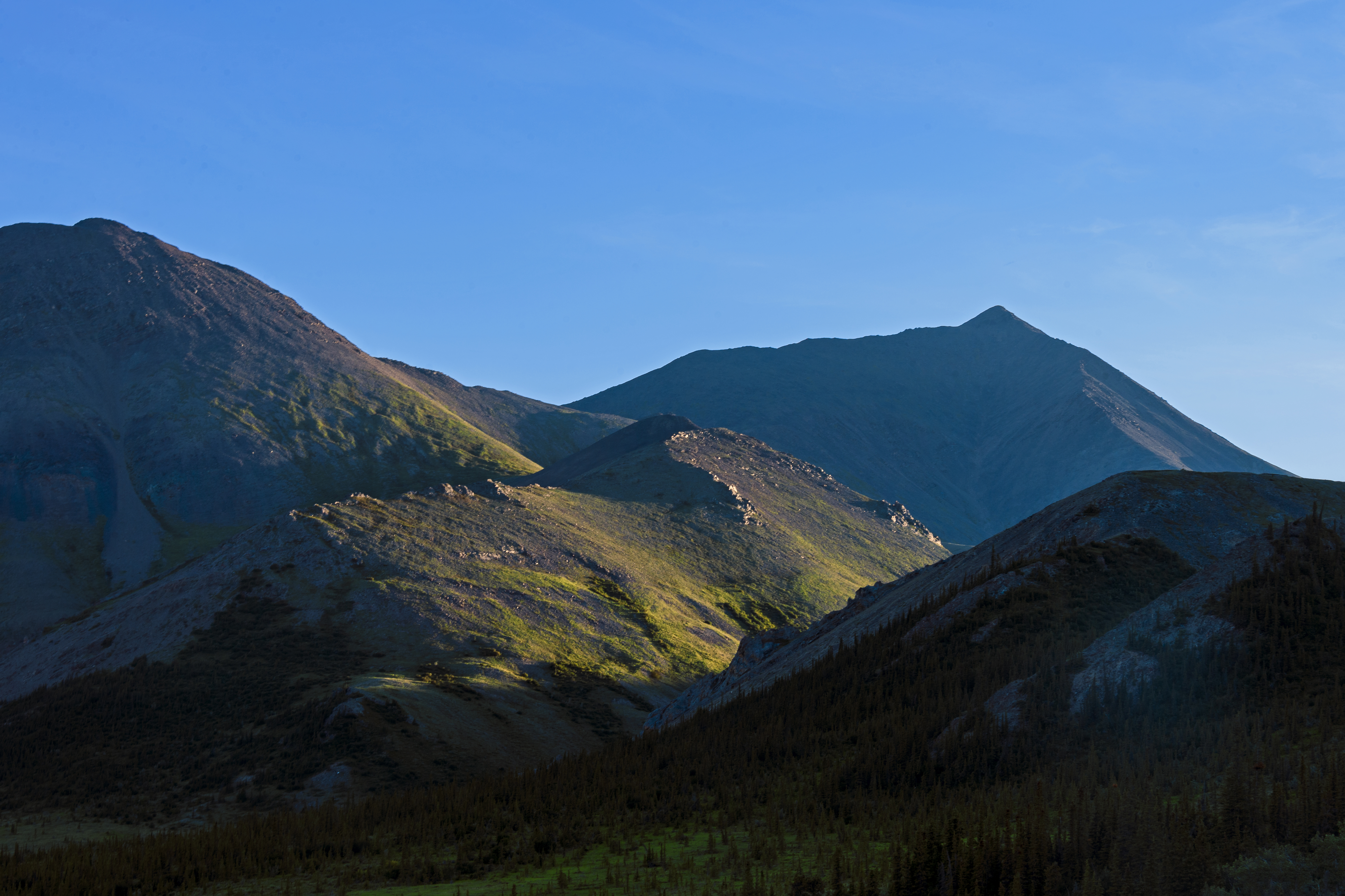 The light of the midnight sun on some of the eastern British Mountains as seen from a campsite near the confluence of Wolf Creek and the Firth River in Canada's Ivvavik National Park